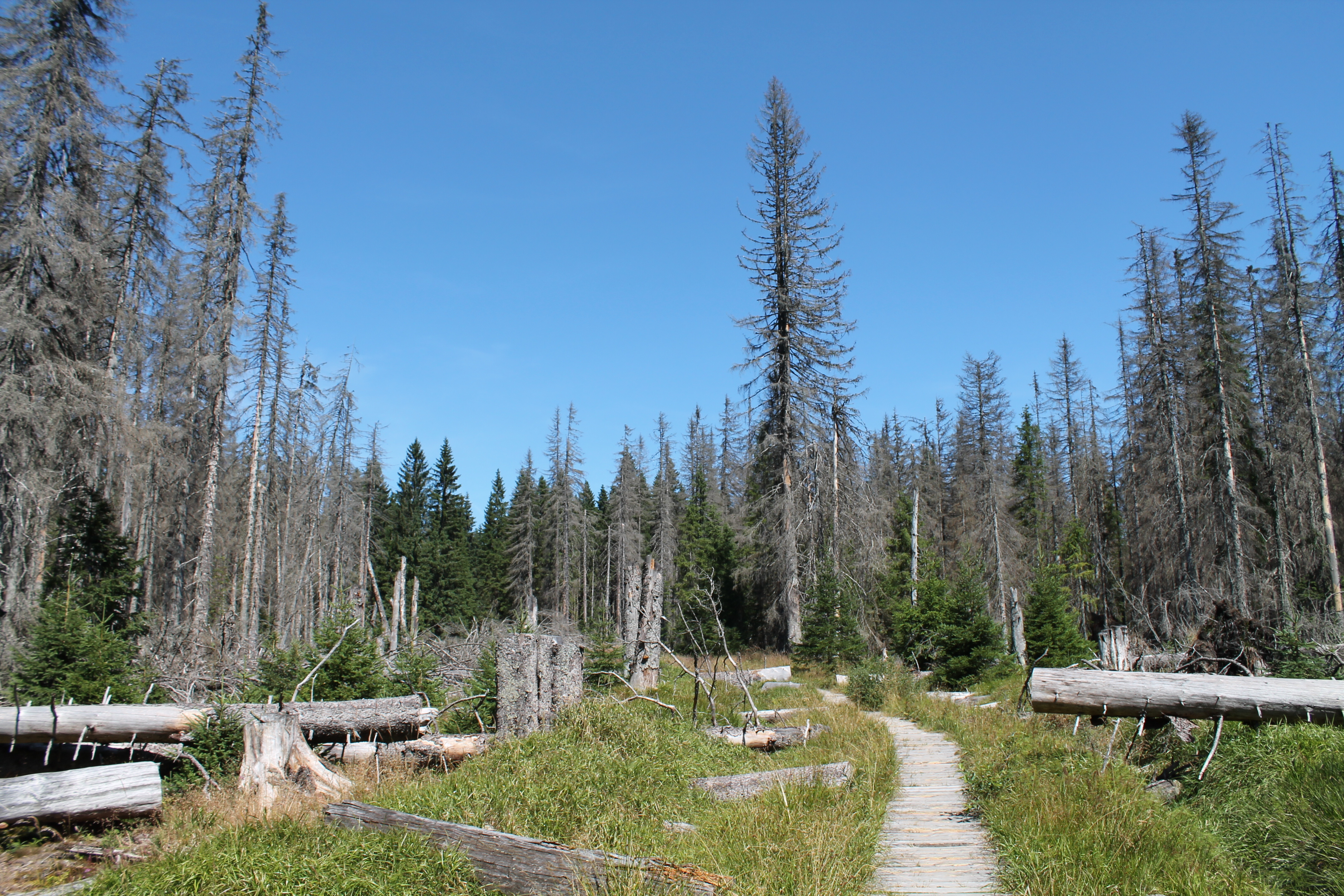 Cikánská slať, Modrava, Klatovy District, Czech Republic - Google Maps - Google Earth